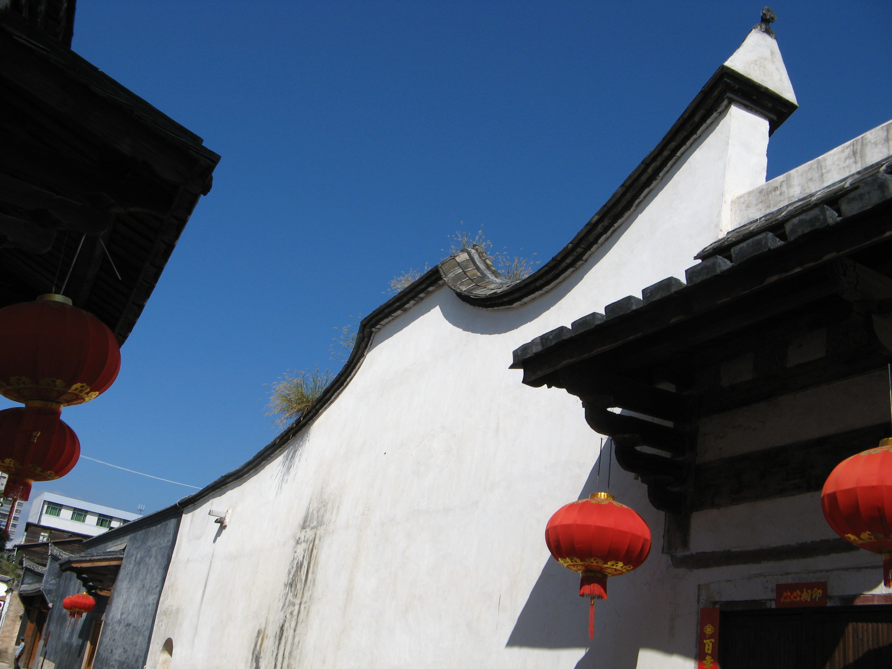 Foochow Fireproof Wall